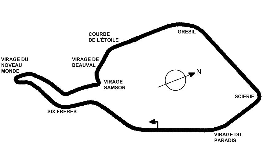 Circuit de Rouen-les-Essarts track layout from 1955 to 1971.